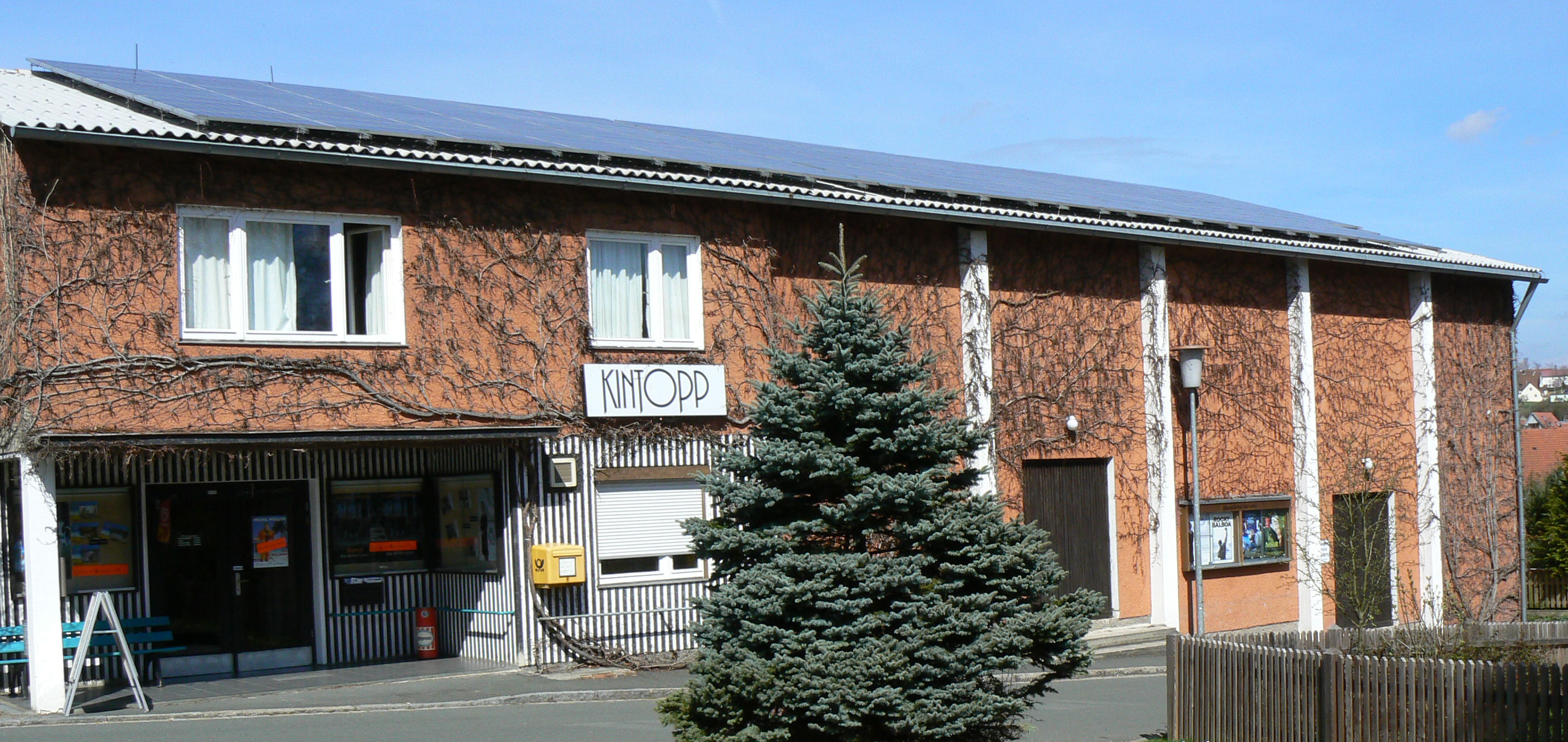 cinema in Hollfeld, Germany